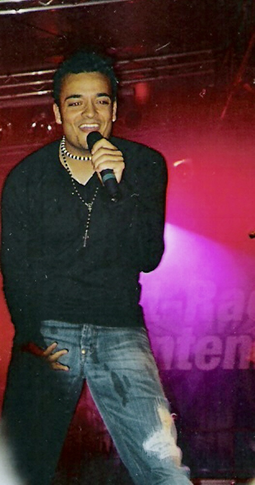 Giovanni Zarrella at the last concert from Bro'Sis in Celle